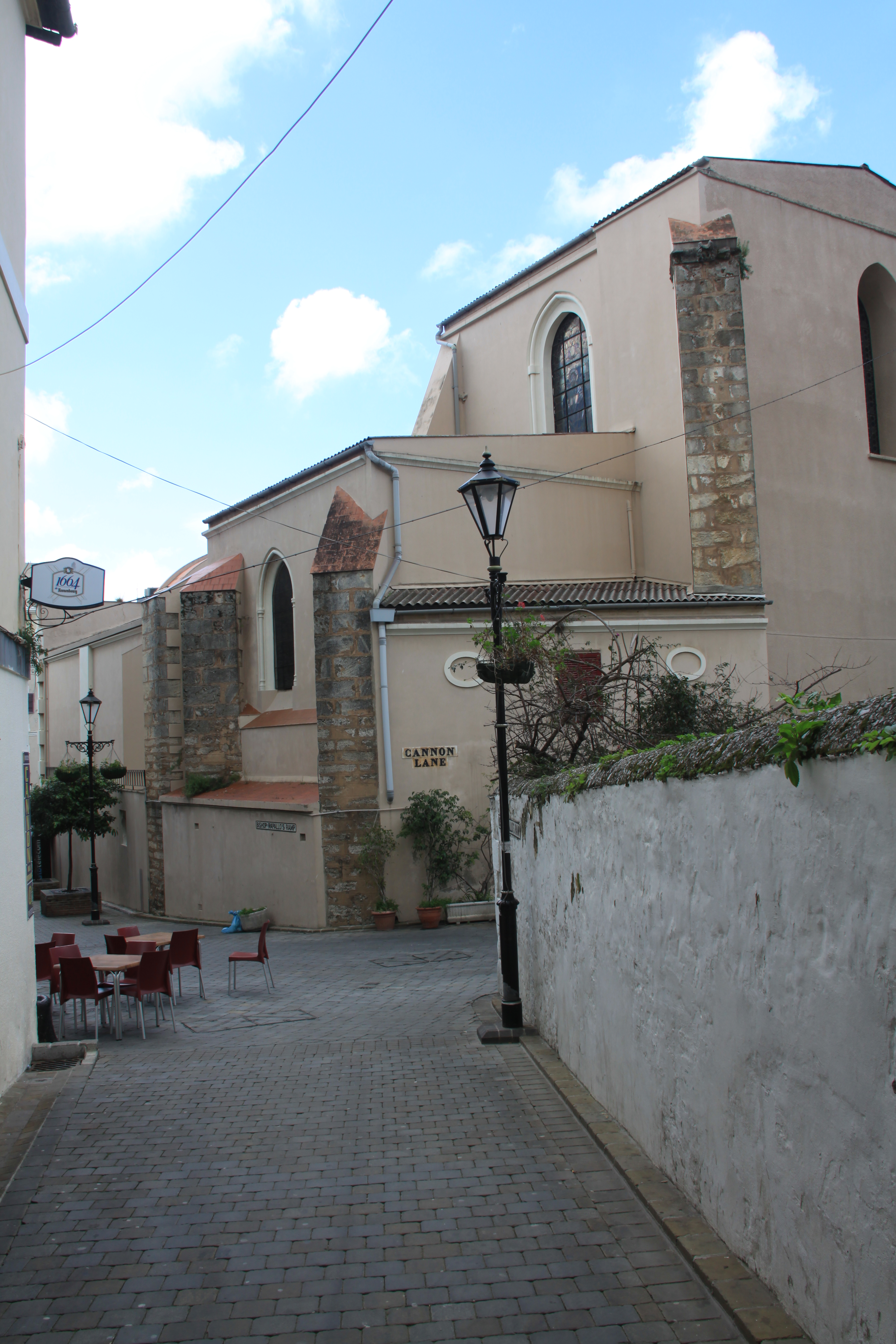 Bishop Rapallos Ramp and Cannon Lane in Gibraltar